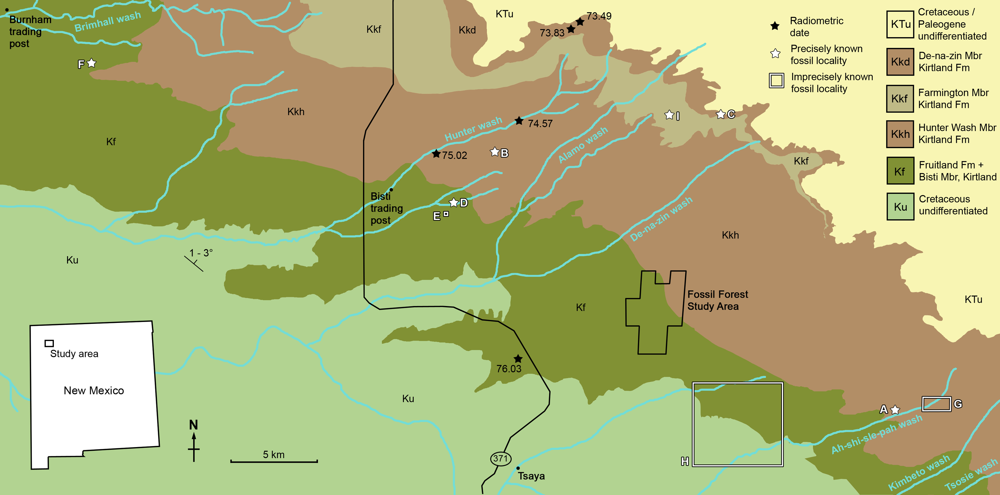 Geological map of the southeast San Juan Basin showing localities of radiometric dates and important fossil specimens mentioned in the text. Collection localities; (A) SMP VP-1500, Navajoceratops sullivani, holotype; (B) NMMNH P-27486, Terminocavus sealeyi, holotype; (C) NMMNH P-33906, Denazin chasmosaurine; (D) NMMNH P-37880, c.f. Pentaceratops sternbergii, parietal fragment; (E) UKVP 16100, c.f. P. sternbergii, complete skull; (F) MNA Pl.1747, c.f. P. sternbergii, complete skull; (G) USNM 8604, Chasmosaurinae sp. anterior end of a parietal median bar; (H) purported collection area of AMNH 6325, P. sternbergii, holotype. (I) NMMNH P-50000, Chasmosaurinae sp., skull missing frill. Radiometric dates recalibrated from Fassett & Steiner (1997) by Fowler (2017). Bedrock geology altered from O’Sullivan & Beikman (1963).